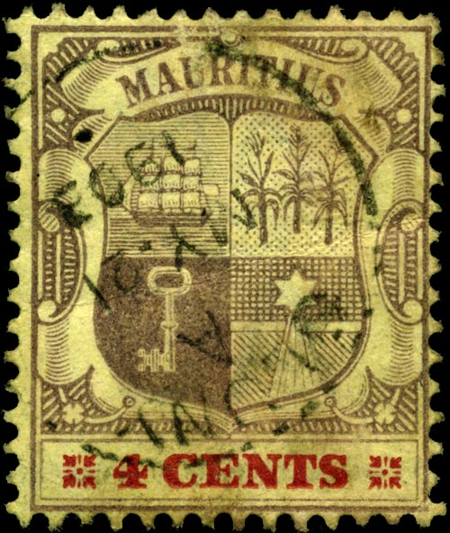 Mauritius 4c stamp of 1900